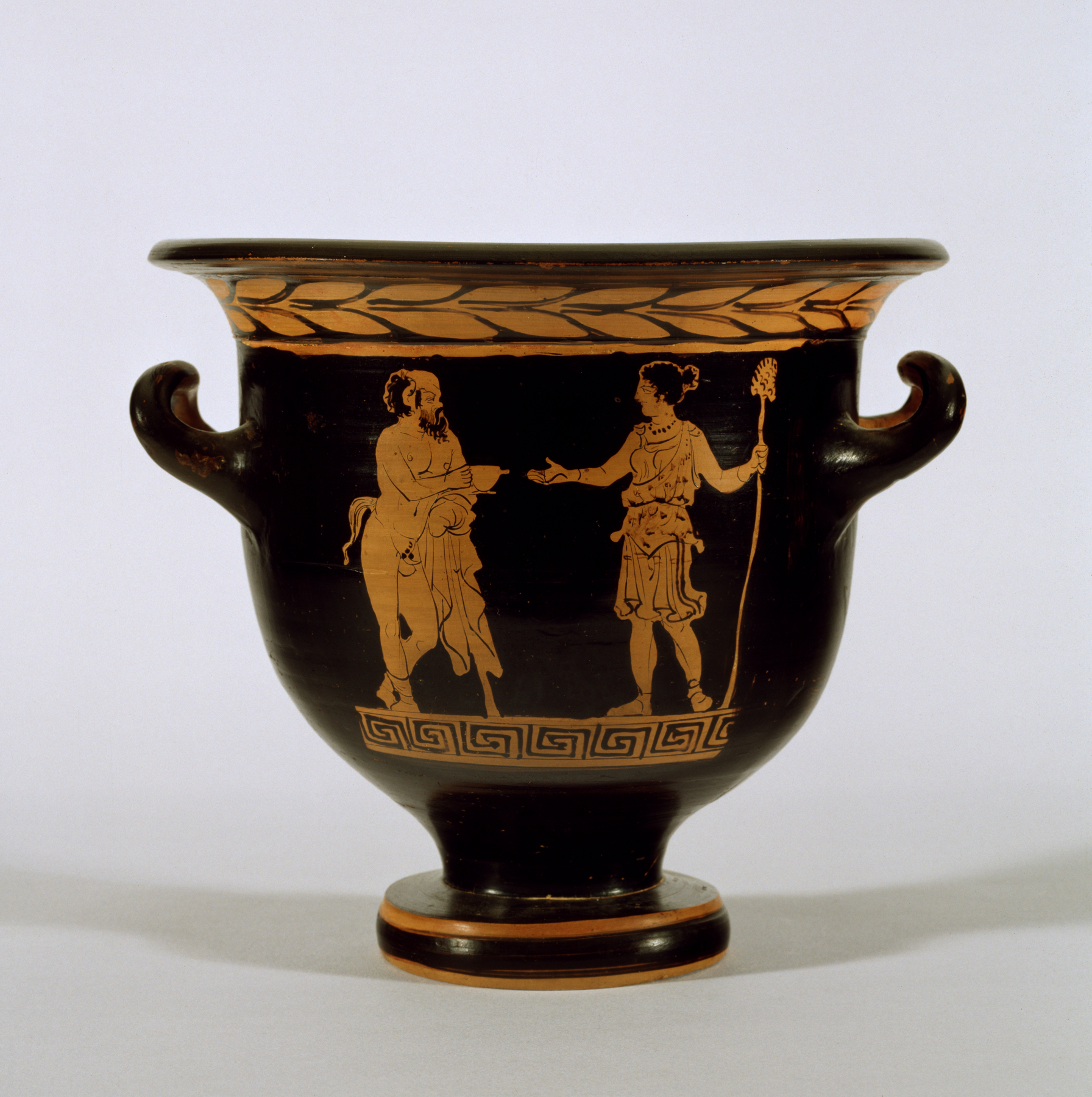 Scenes related to the wine-god Dionysus are appropriate for "kraters," as these vessels were used to mix wine and water. Here, an old satyr hands a cup to a maenad wearing a short dress and an animal skin-clothing normally associated with the goddess Artemis or an Amazon. On the opposite side, two youths in mantles are engaged in conversation. The Tarporley Painter is named after the previous owner of one of the vases he created. He is the most important painter to work in the early plain style of Apulian vase painting. The bell "krater" was his favorite vase shape, and Dionysiac themes are common in his work.